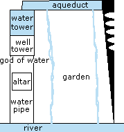 A hanging garden, 21st century interpretation. In the front, under this image is a river. In the left a pipe go the well tower, in the middle a water tower, in the right garden by many fruit trees on a slope by tree pointed vaults and irrigation (on a layer of asphalt), and on the pipe is a altar by points.